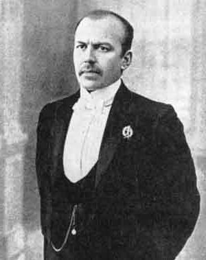 Pavel Fyodorovich Bulatsel, politican of Russian Empire